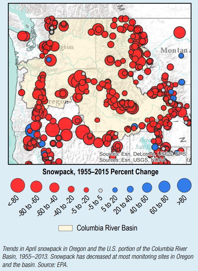 EPA snowpack map of Washington, Oregon, and Idaho with caption.